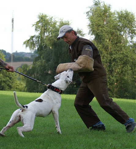 american bulldog blocky bulldogs kennel